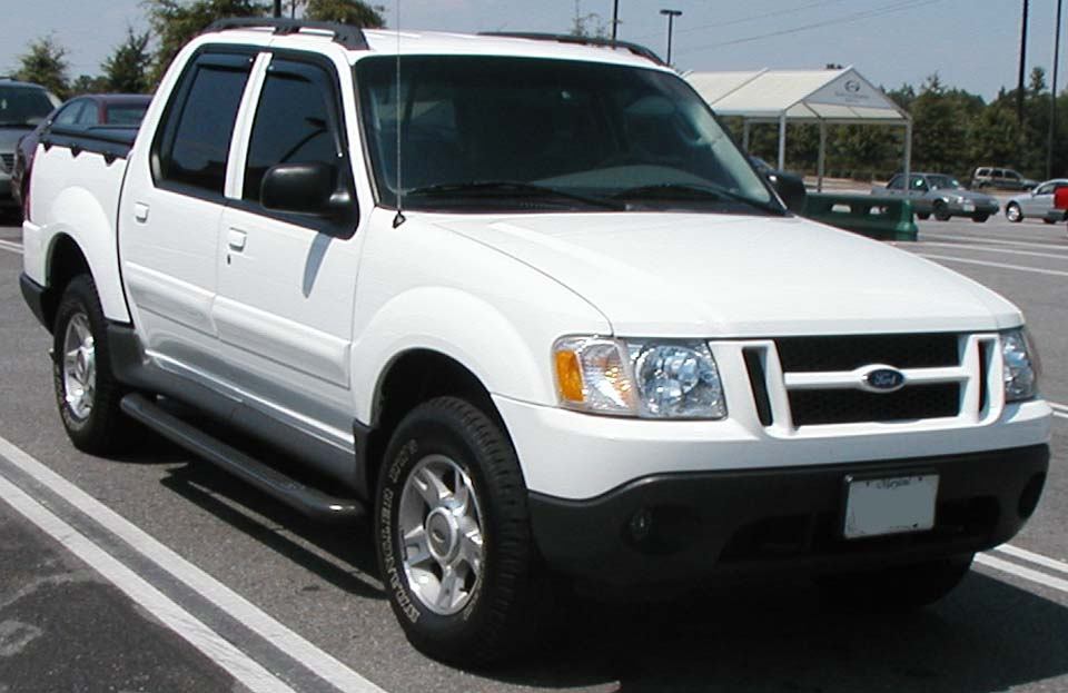 2001-2005 Ford Sport Trac photographed in USA.